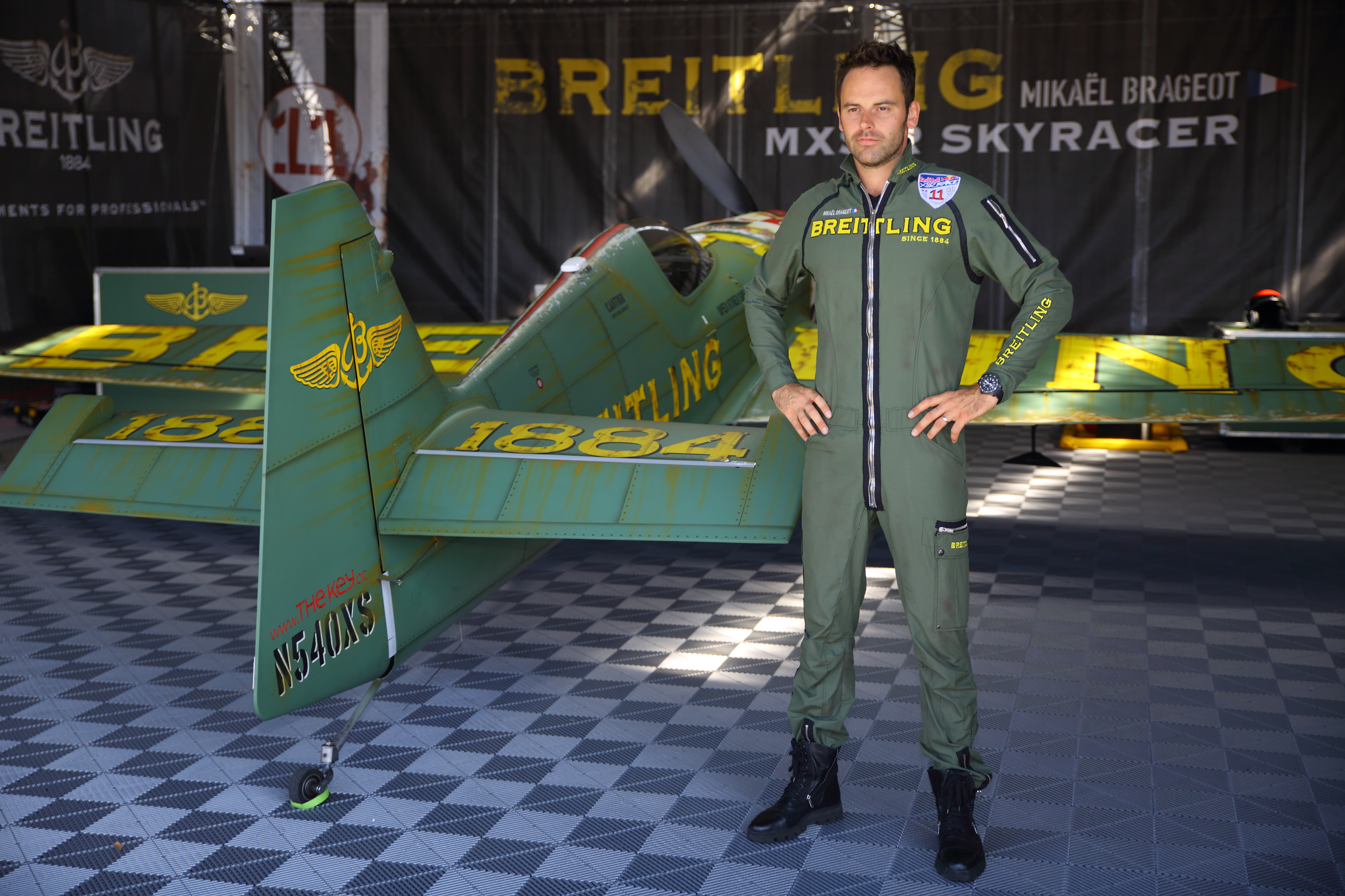 Mikaël Brageot, 2017 Red Bull Air Race of Porto